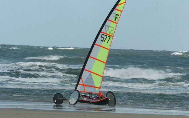 A class 5 land yacht in the sea surf.